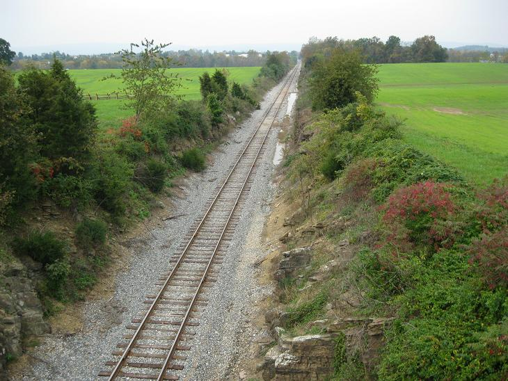 McPherson railroad cut at the Gettysburg Battlefield. In the Gettysburg National Military Park, looking northwest from the overpass toward the Catoctins.